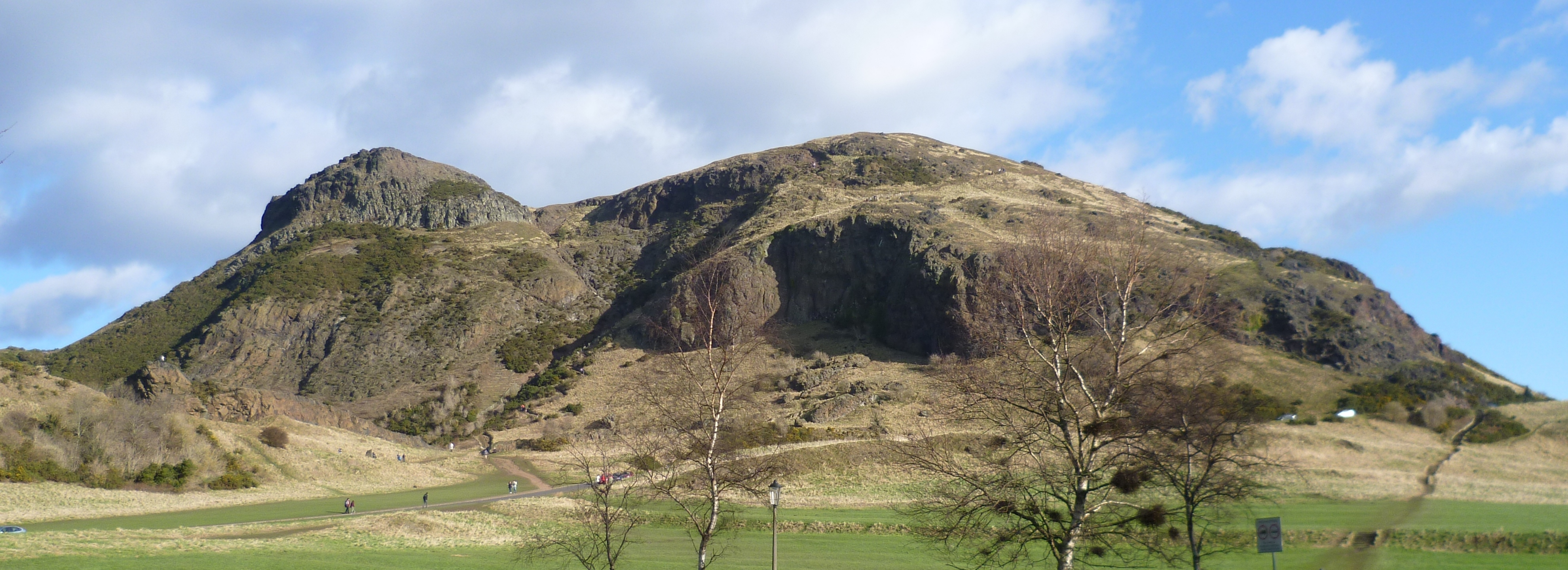 Arthur's Seat, Edinburgh, February 2012